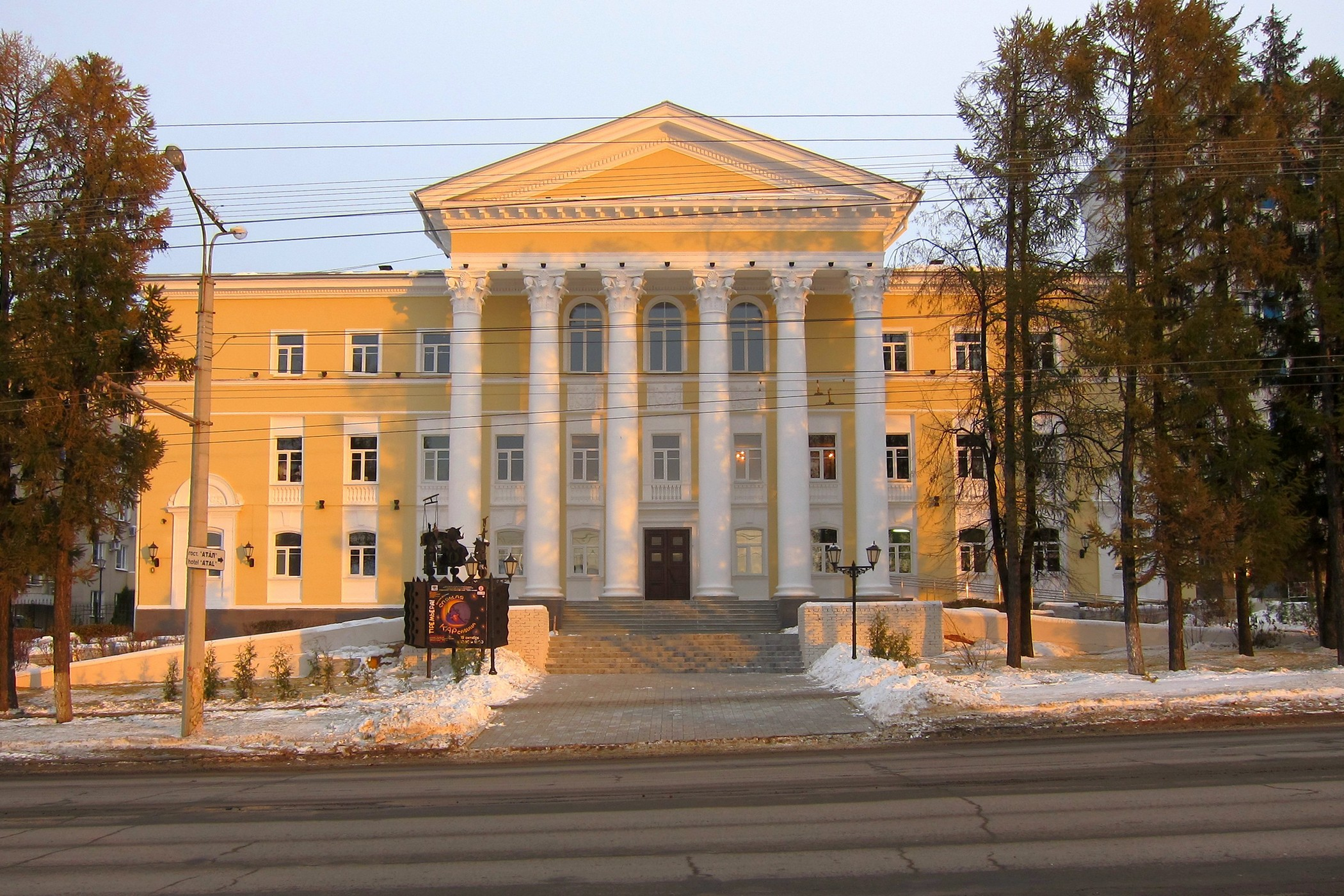 Chuvash State Puppet TheaterЧӑвашла: Чăваш патшалăх пукане театрĕ